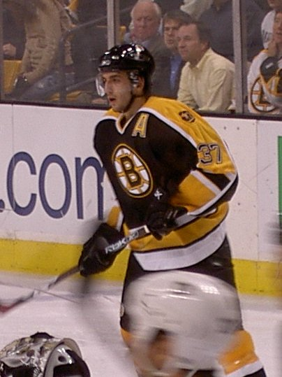 #37 Patrice Bergeron, Canadian ice hockey player (forward) of the Boston Bruins